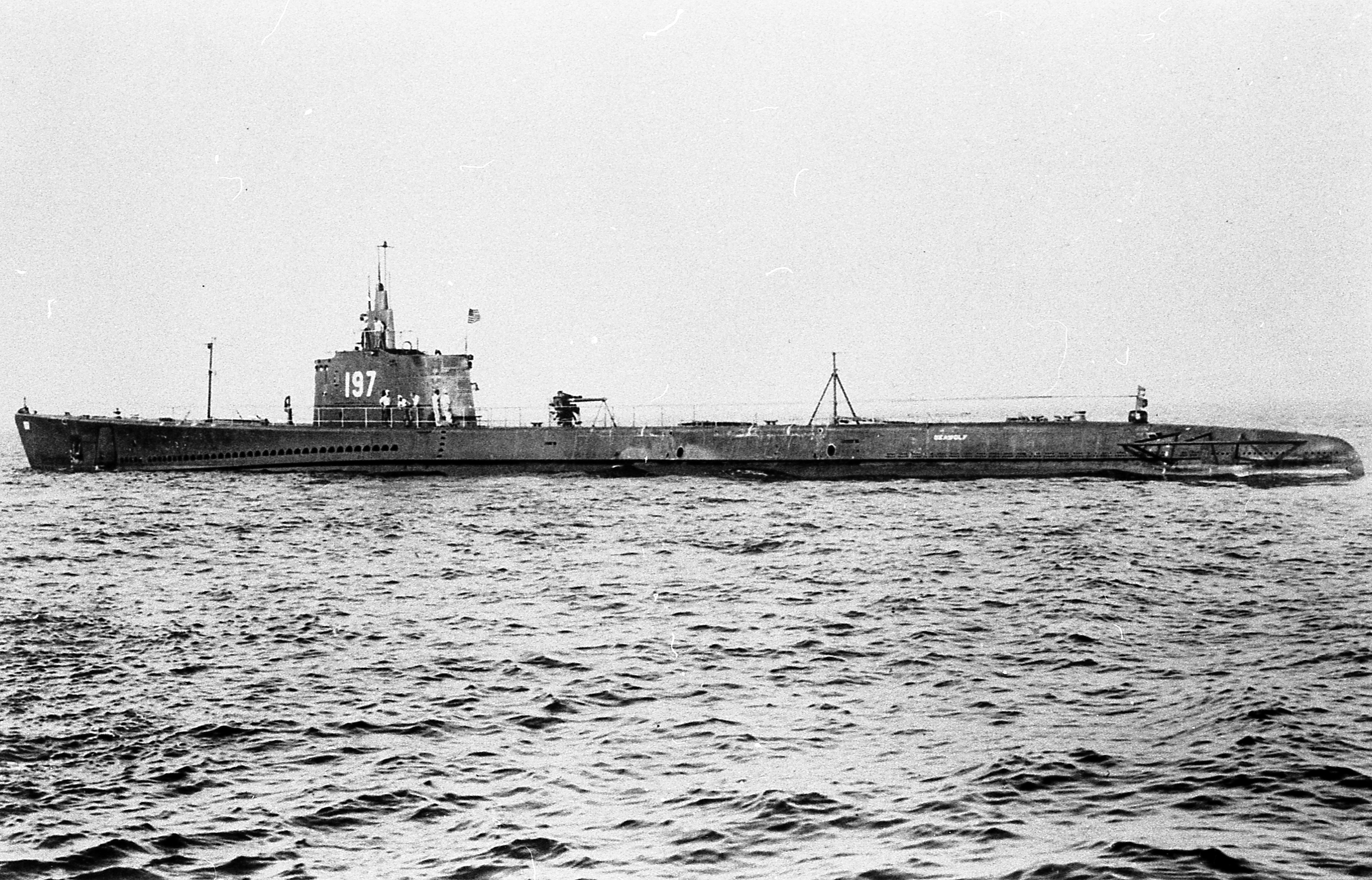 Undated photo of the USS Seawolf (SS-197) found in a government archive